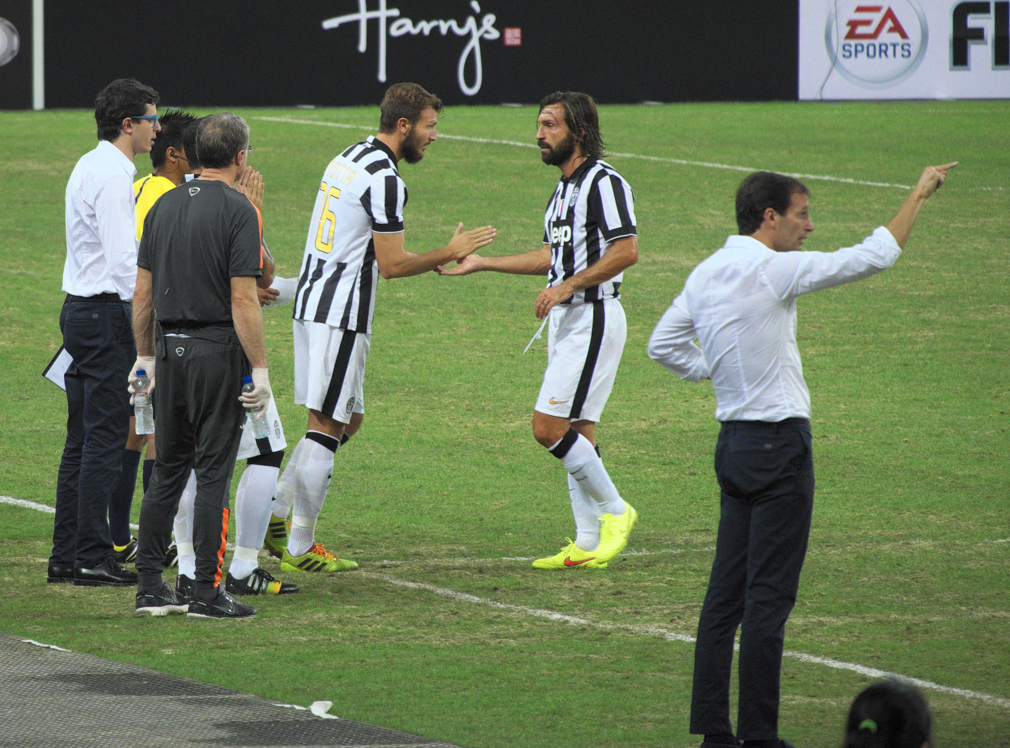 Singapore Selection vs Juventus - 2014 - Bianconeri's footballers Marco Motta and Andrea Pirlo, and their coach Massimiliano Allegri.